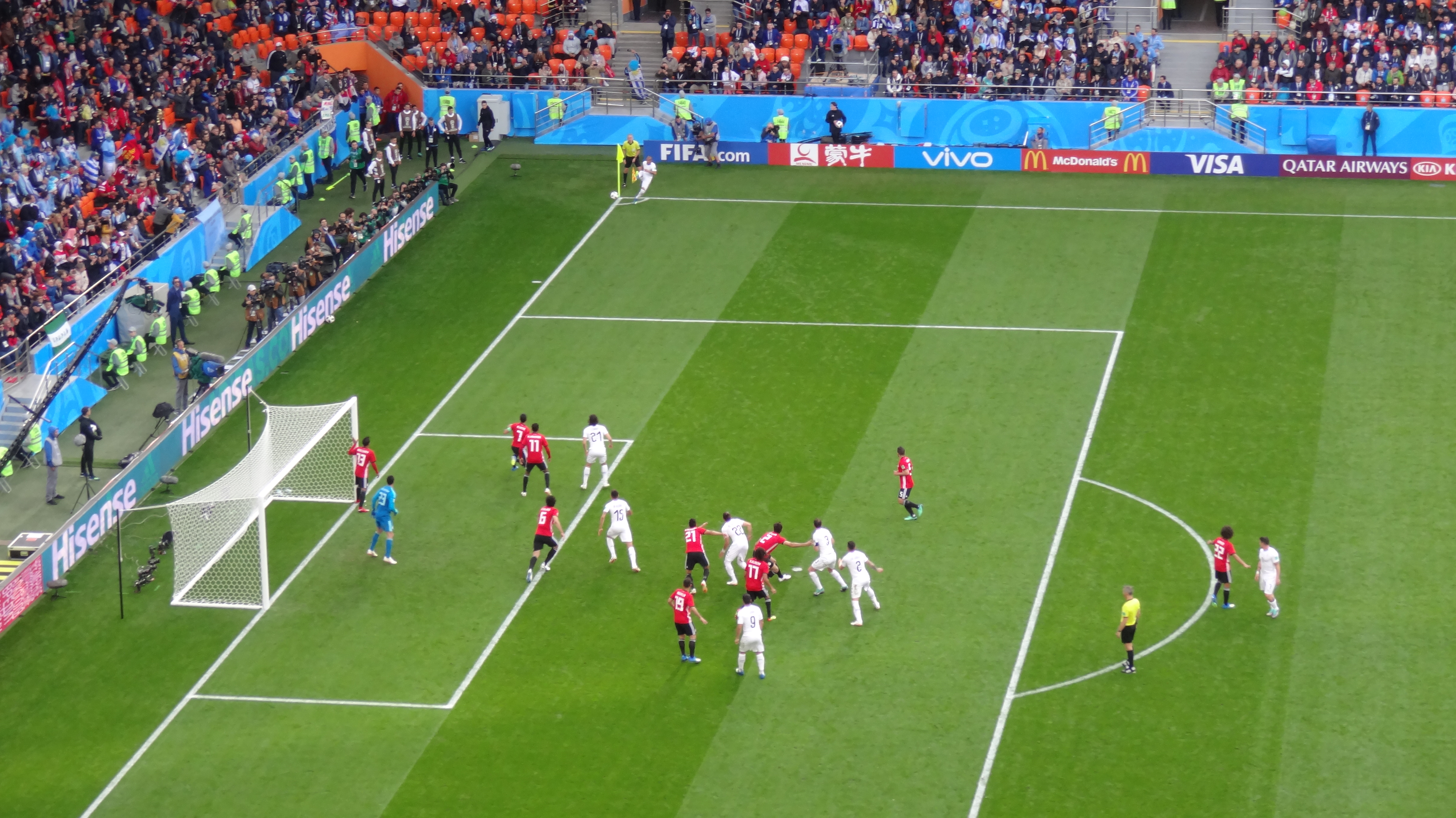 Egypt-Uruguay match, Group A, 2018 FIFA World Cup. Carlos Sánchez corner.